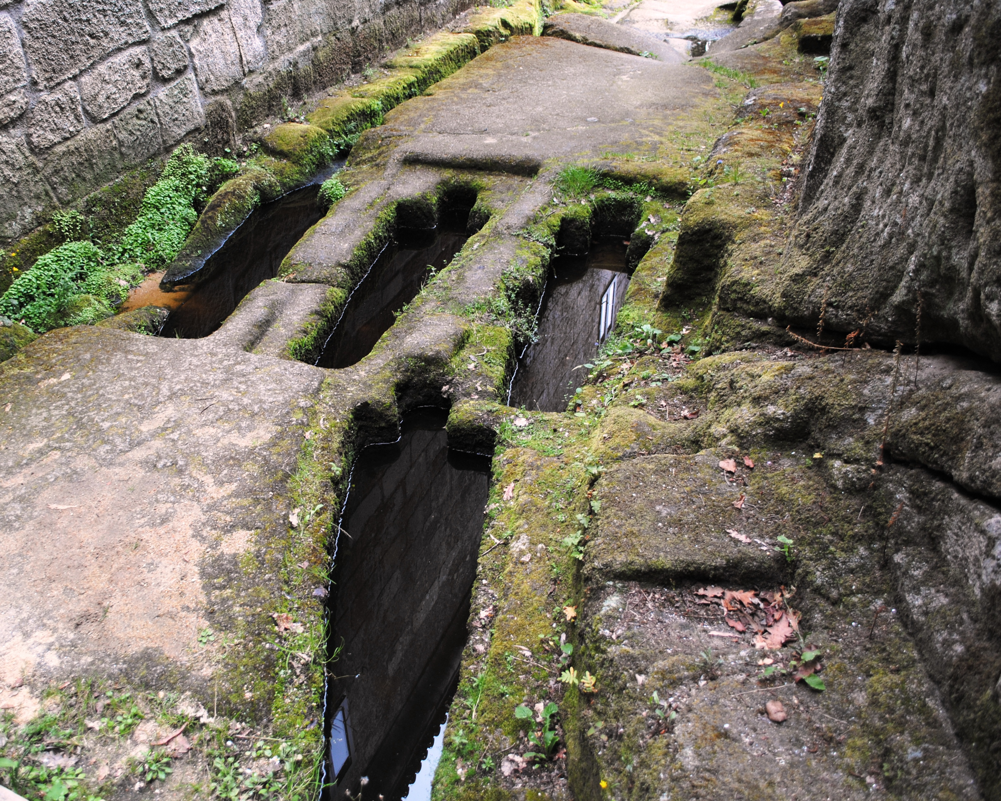 See title